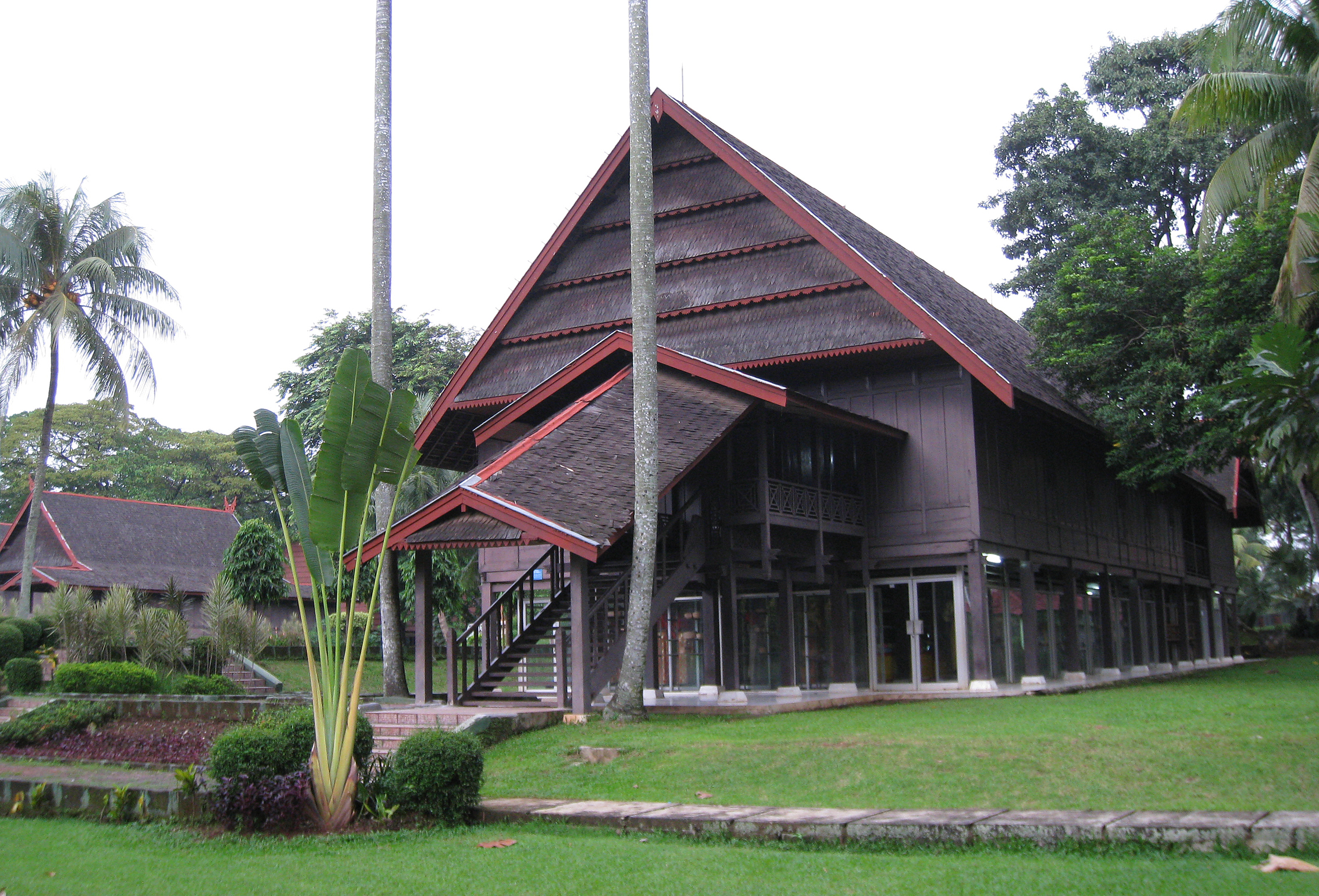 The traditional Bugis house at South Sulawesi Pavilion, Taman Mini Indonesia Indah, Jakarta.